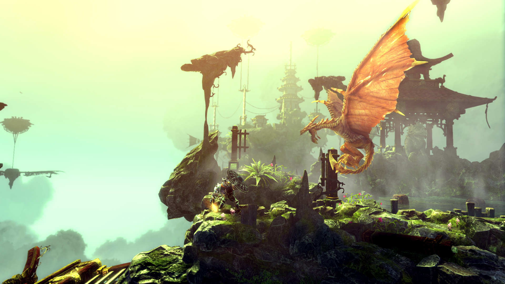 Trine 2 screenshot. Released in 2011, the game was developed by Frozenbyte. Pontius battles a wyvern in this scene from the Cloudy Isles chapter, part of the Goblin Menace DLC pack released in 2012.